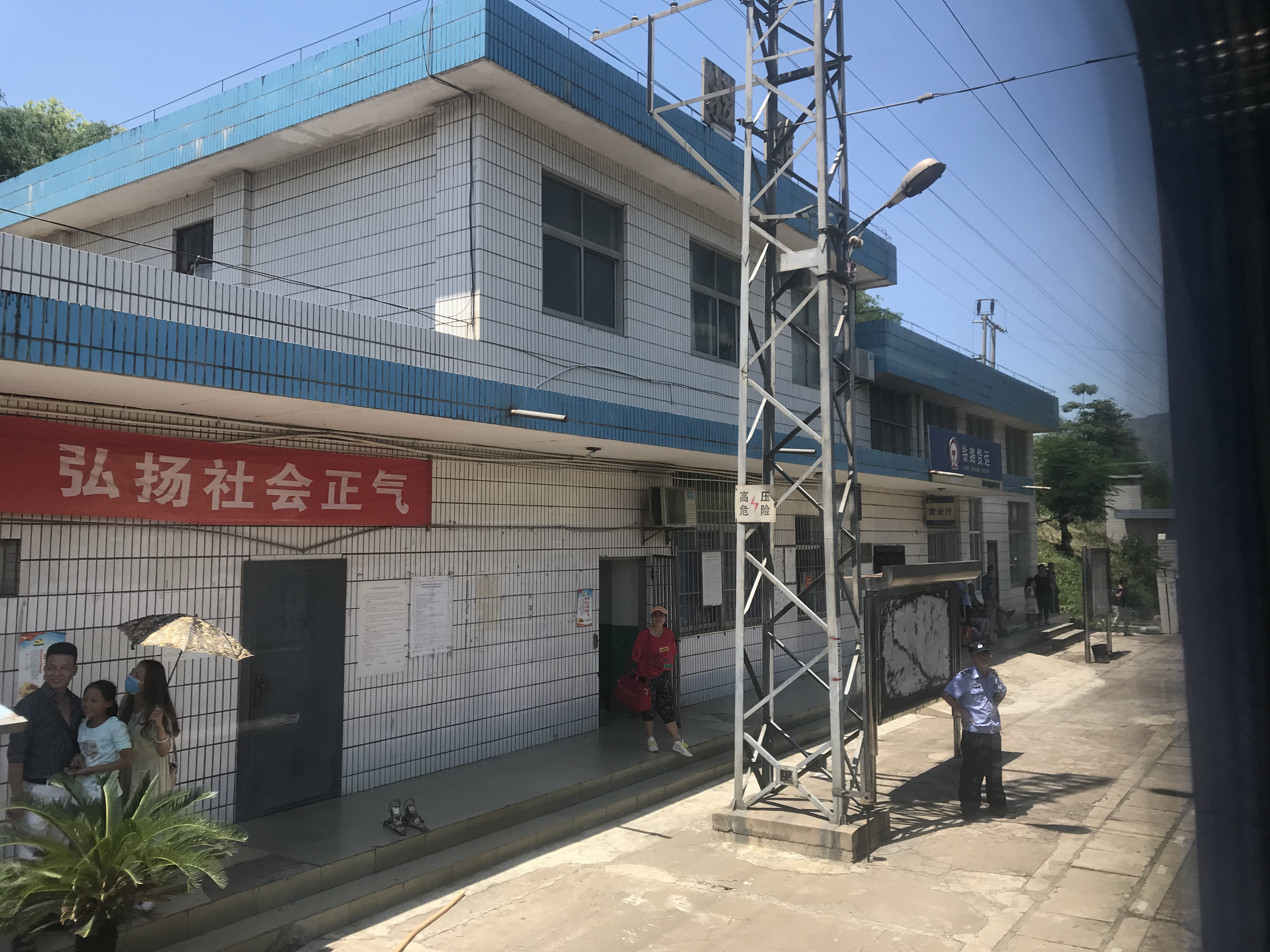 201908 Station Building of Lazha